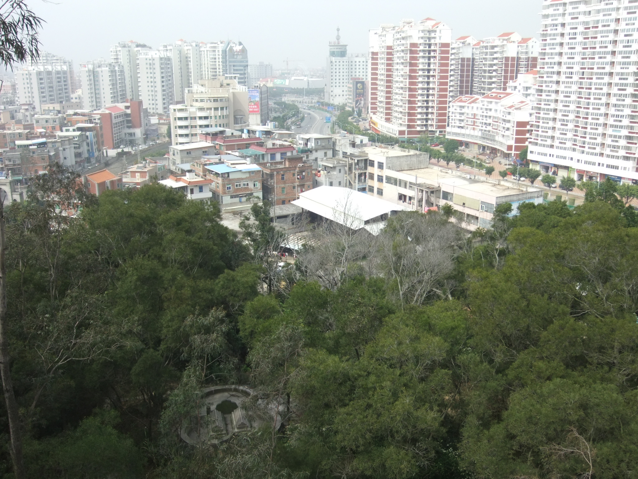 Lingshan Islamic Cemetery (Lingshan Park) in Quanzhou..